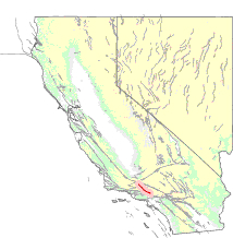 Map of the San Gabriel Fault — along the southwestern face of the Western San Gabriel Mountains, in Southern California. A right lateral strike-slip fault zone that runs through north-central Los Angeles County .